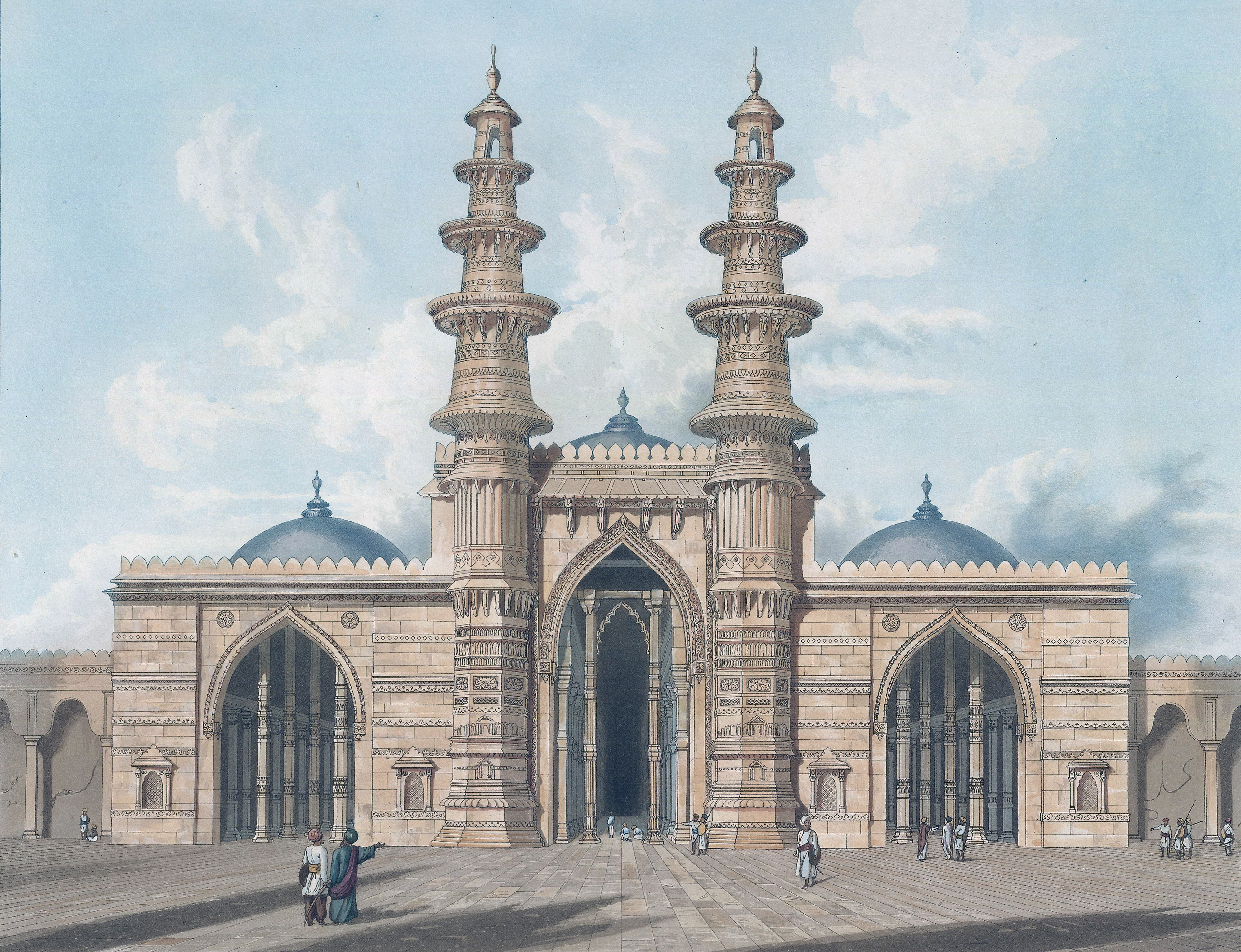 The Shaking Minarets at Ahmedabad